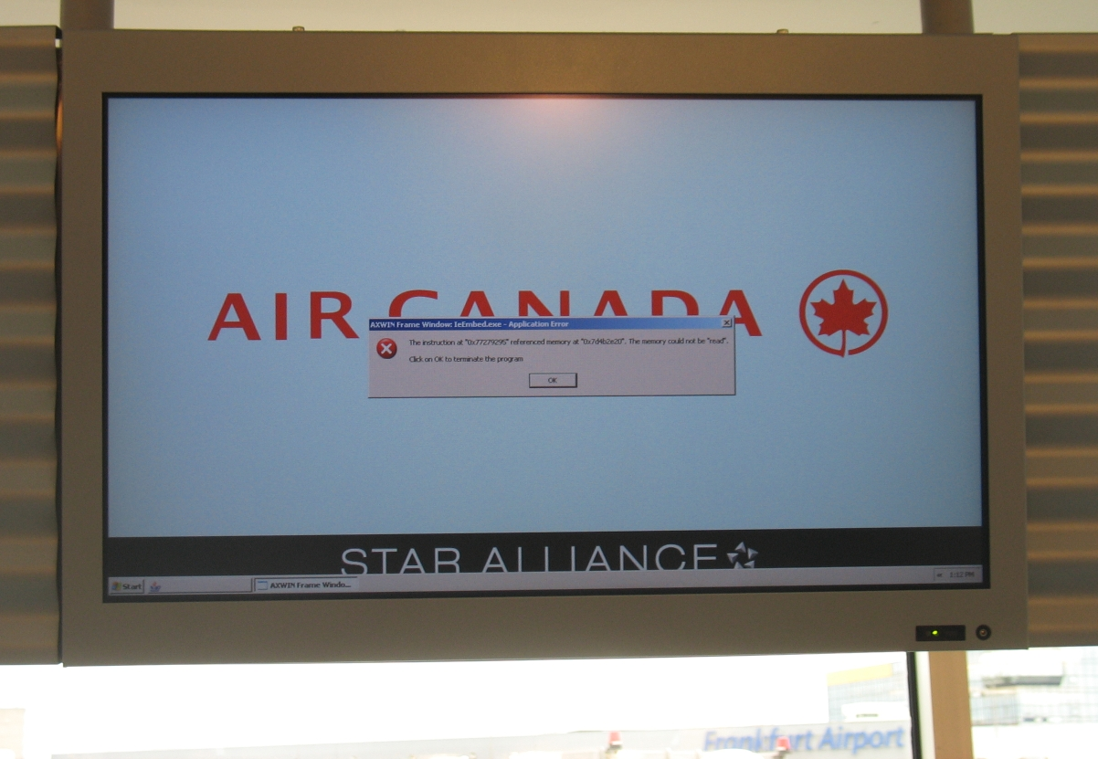 Screen display showing a computer program crash. Frankfurt Airport, July 2008.